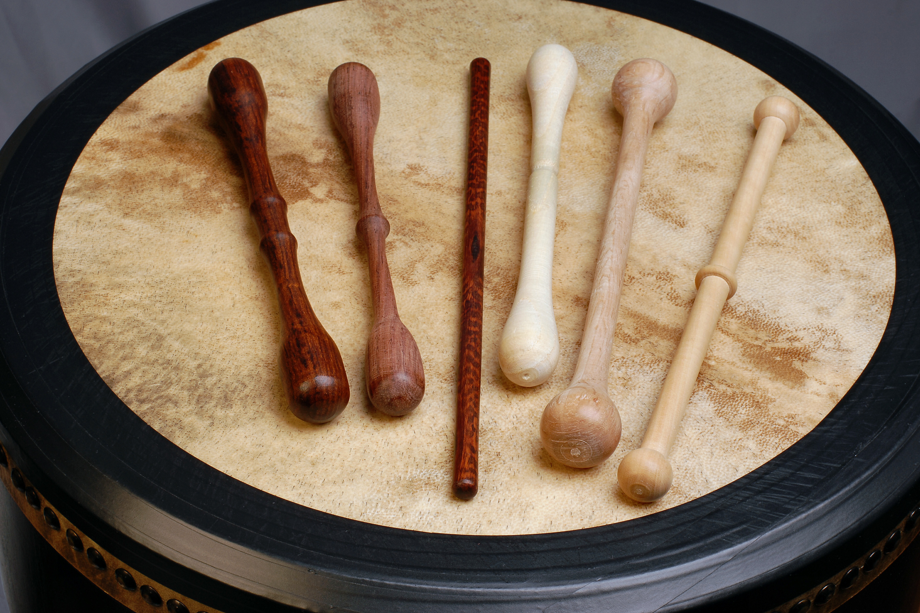 Collection of mallets (beater, cipin, stick, ...) for Bodhrán playing.